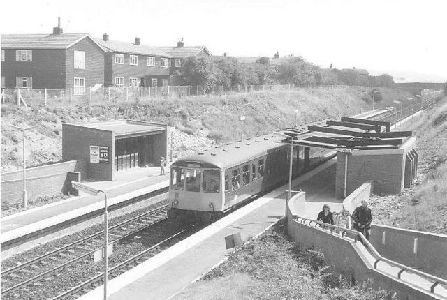 Brinnington station - platform view Still very bright and shiny, the new Brinnington station hosts a Marple-Manchester DMU.